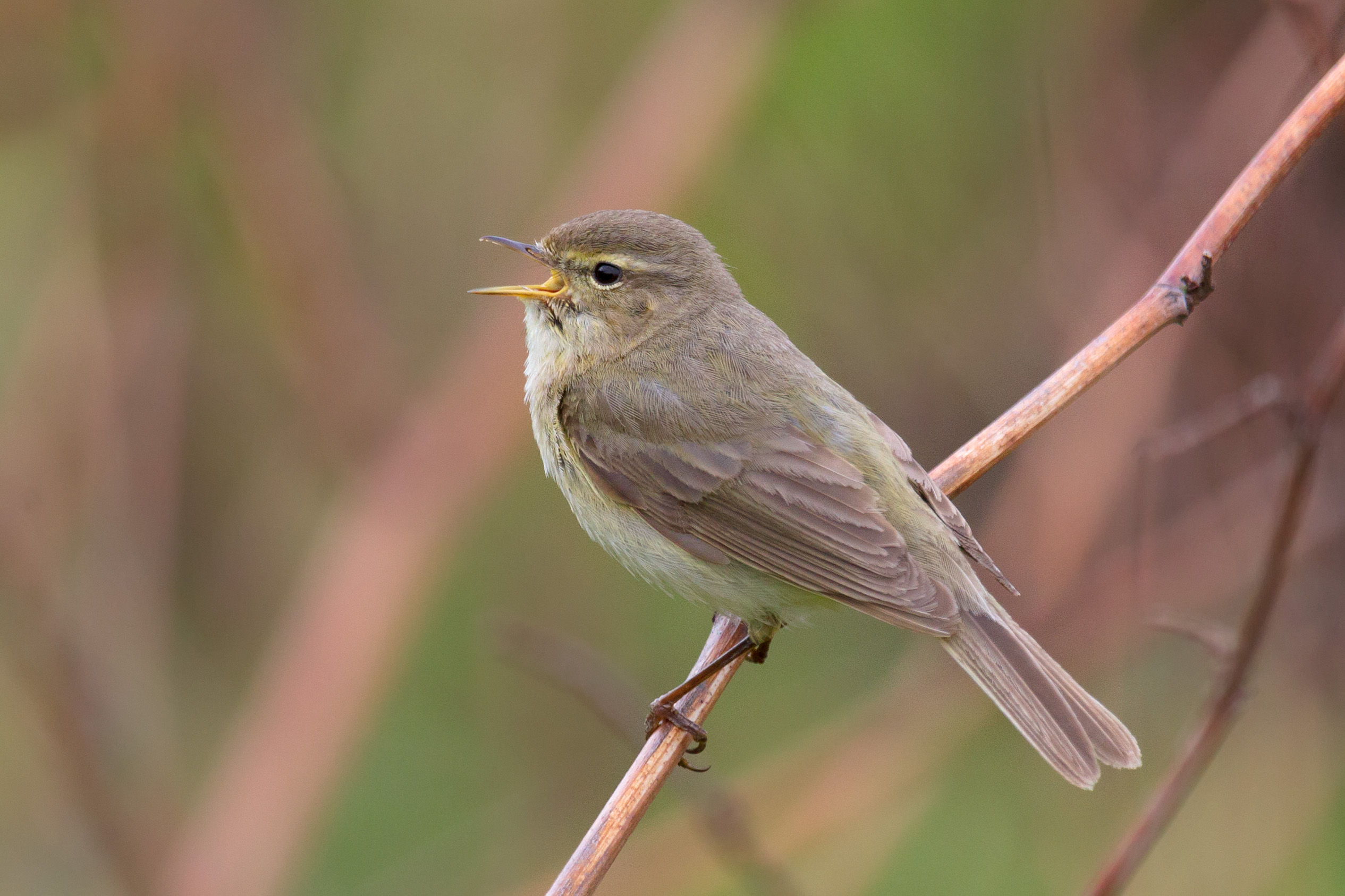 Common Chiffchaff